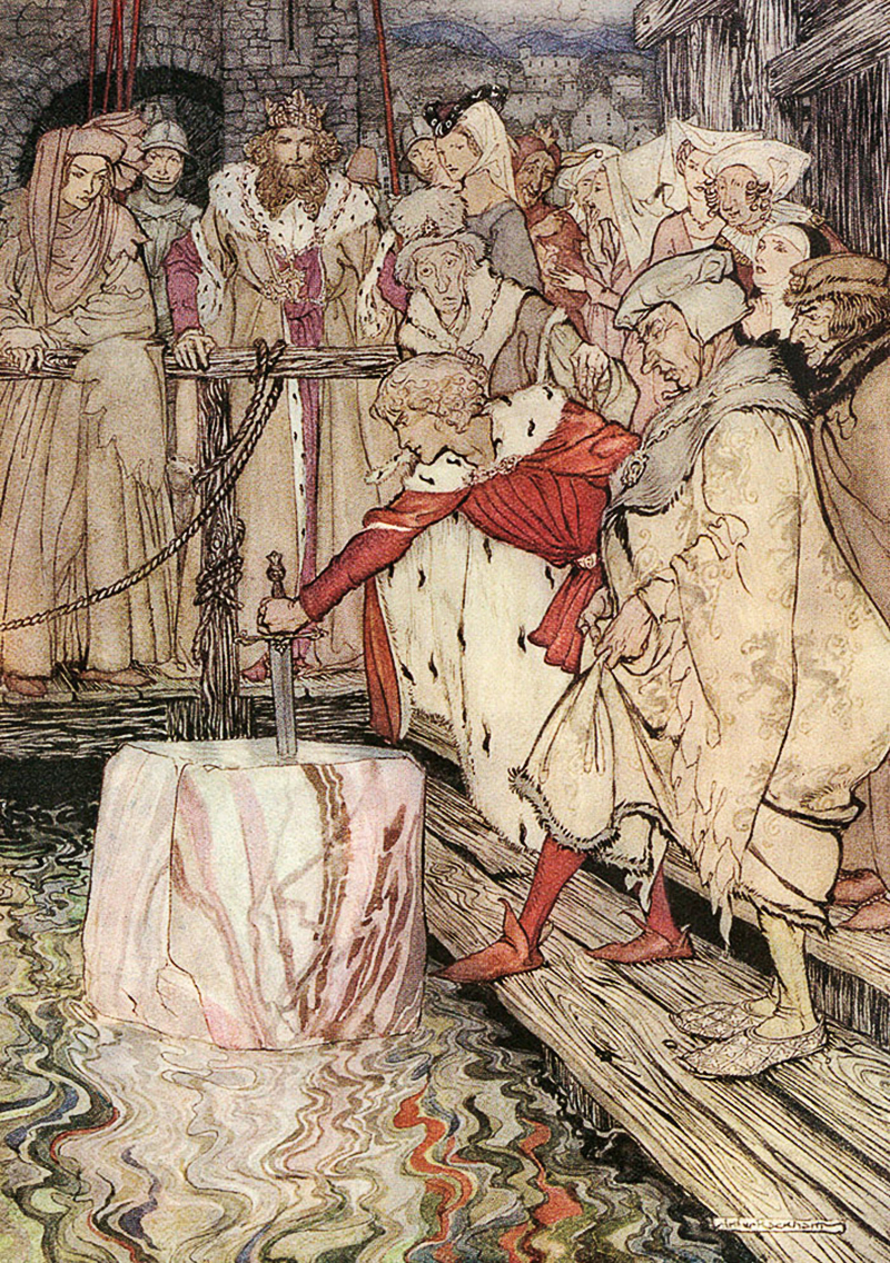 "How Galahad drew out the sword from the floating stone at Camelot." From The Romance of King Arthur (1917). Abridged from Malory's Morte d'Arthur by Alfred W. Pollard. Illustrated by Arthur Rackham. This edition was published in 1920 by Macmillan in New York.